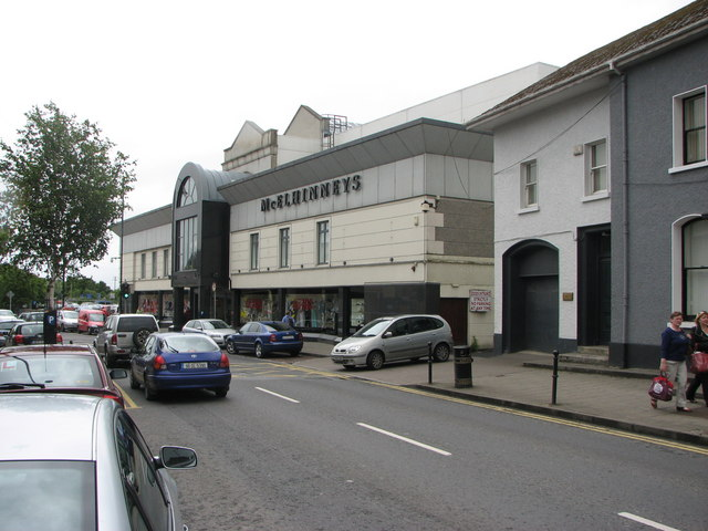 McElhinneys Ballybofey Large department store in Ballybofey. Well known across N.Ireland for the quality, variety and price of its clothing range especially Bridal wear.